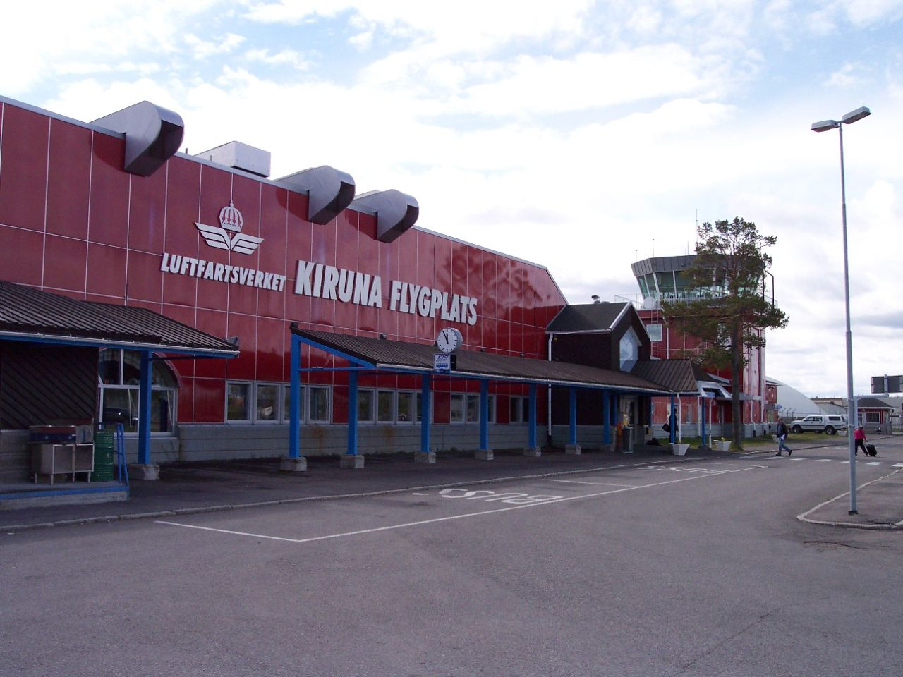 Terminal at Kiruna Airport